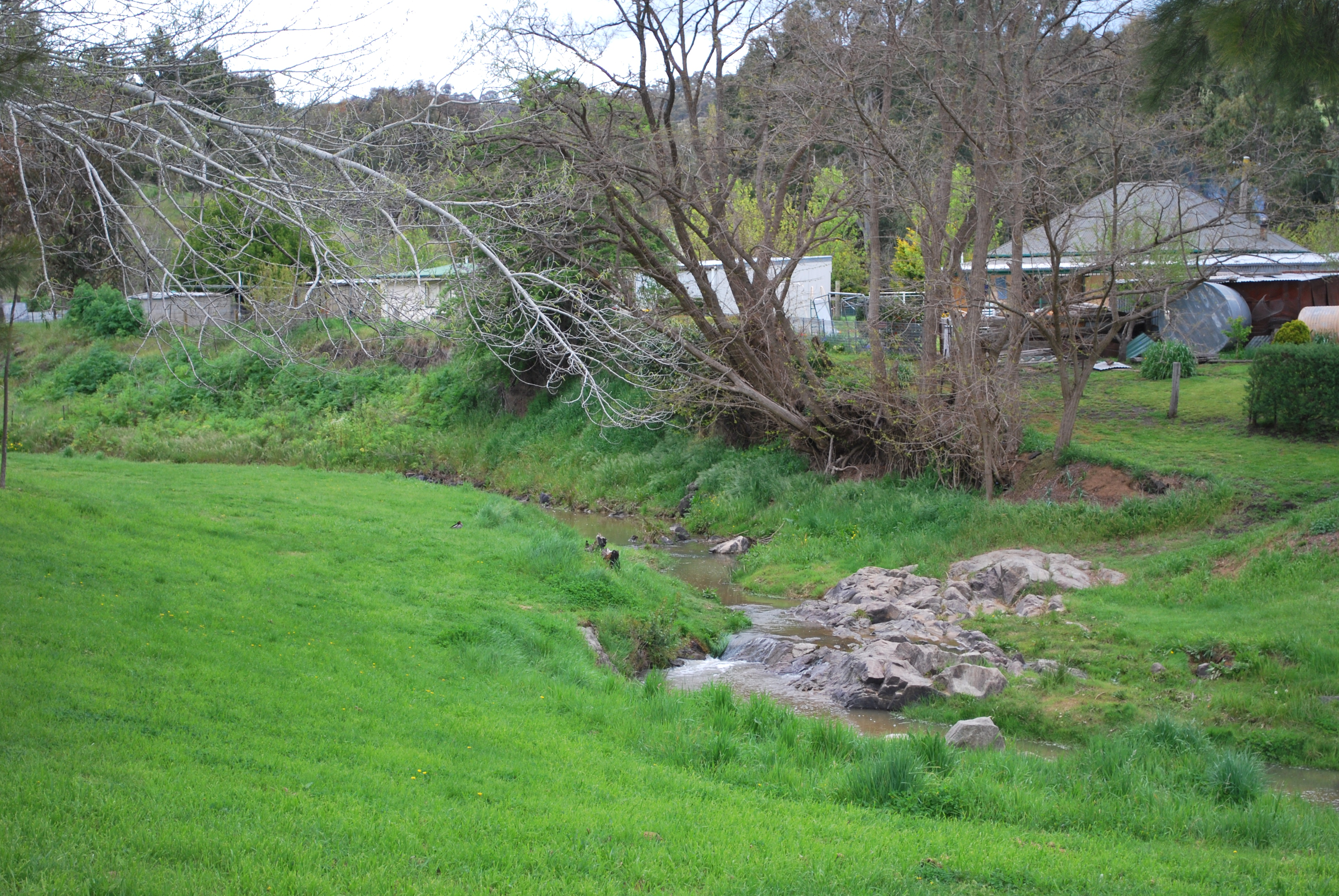 Belubula River at Carcoar, New South Wales